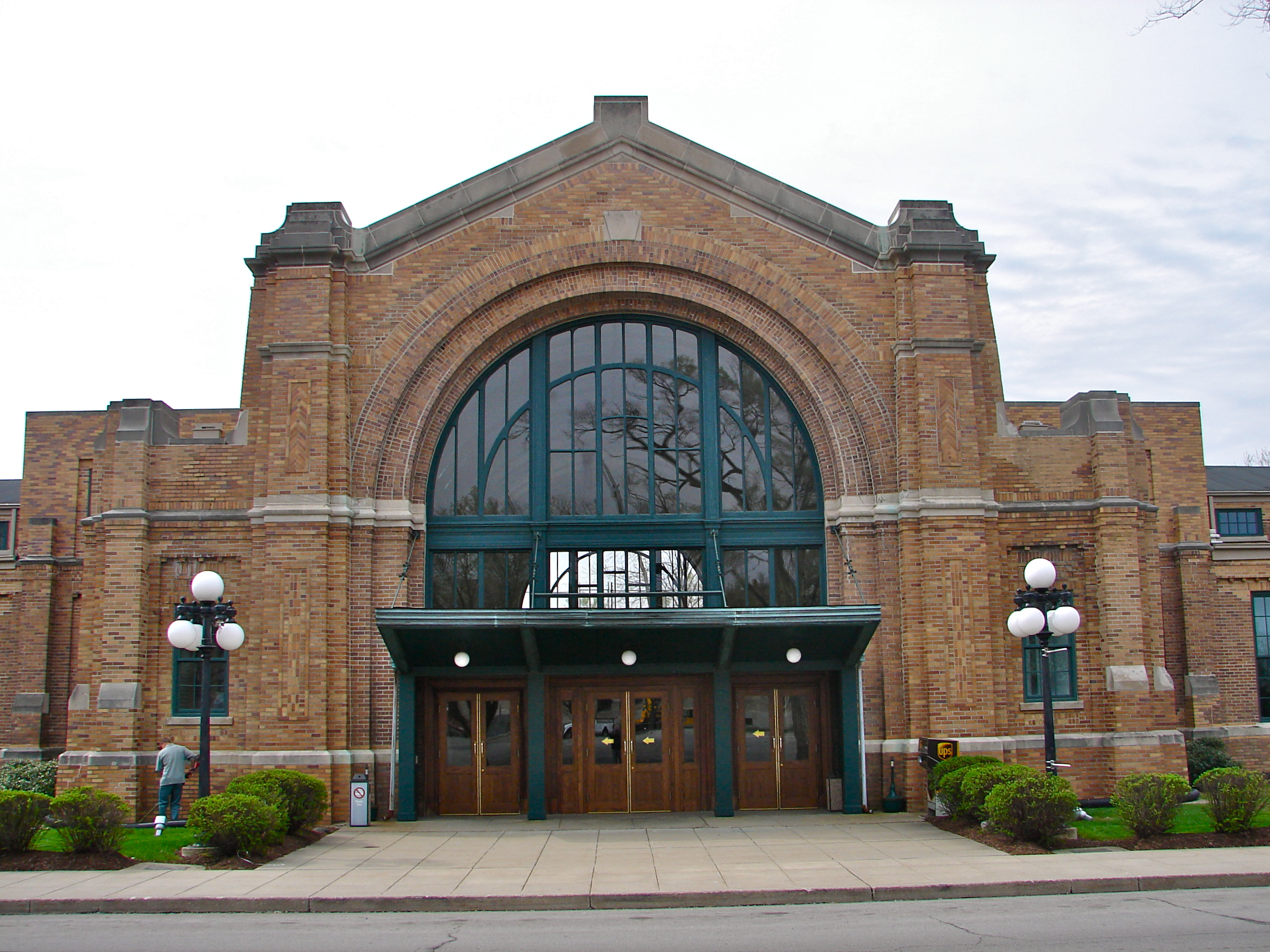 Pennsylvania Railroad Station on the NRHP since August 14, 1998. At 221 W. Baker St., Fort Wayne, Allen County, Indiana. Also known as Baker Street Station.